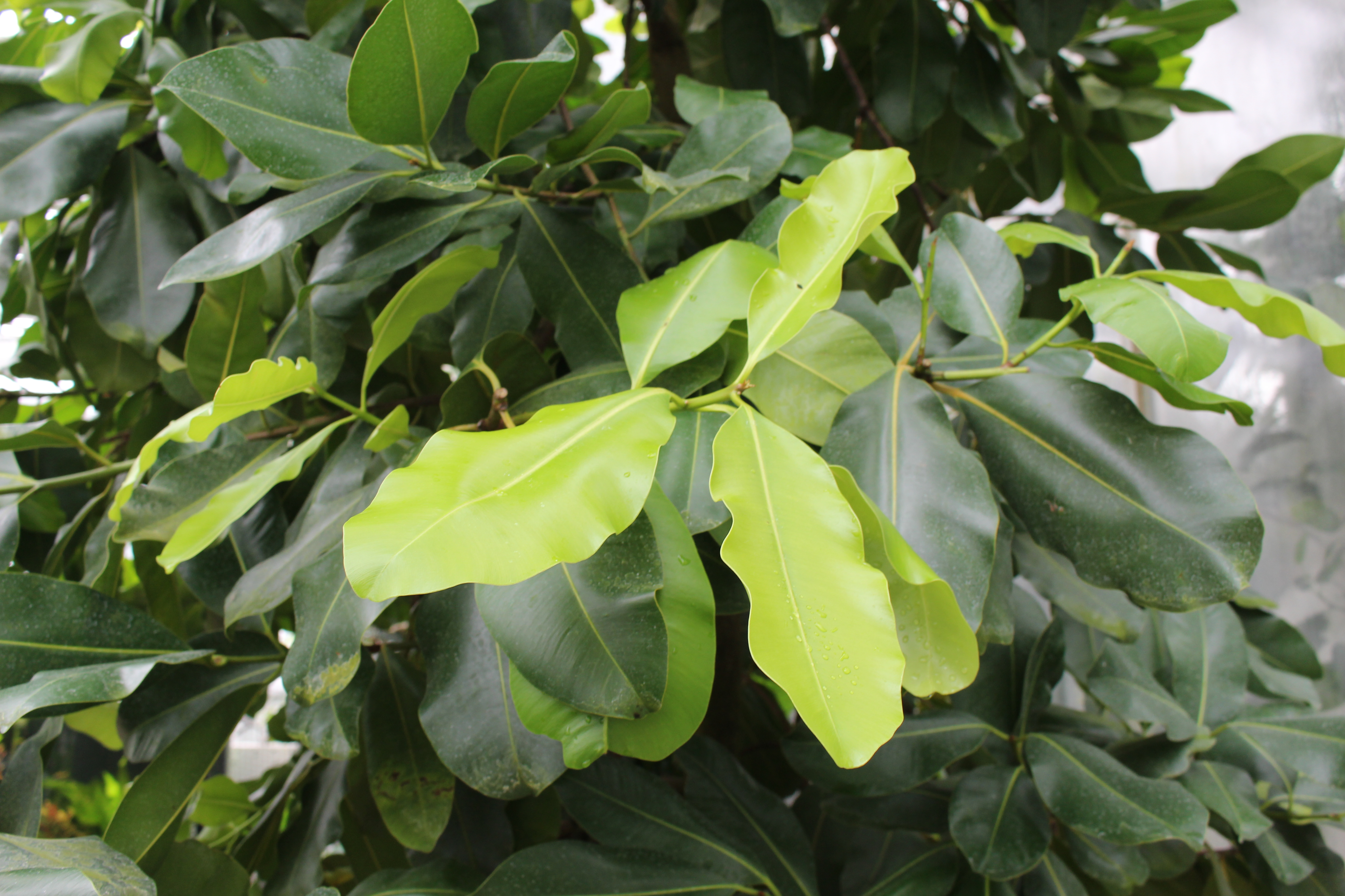 (new) leaves of Calophyllum inophyllum